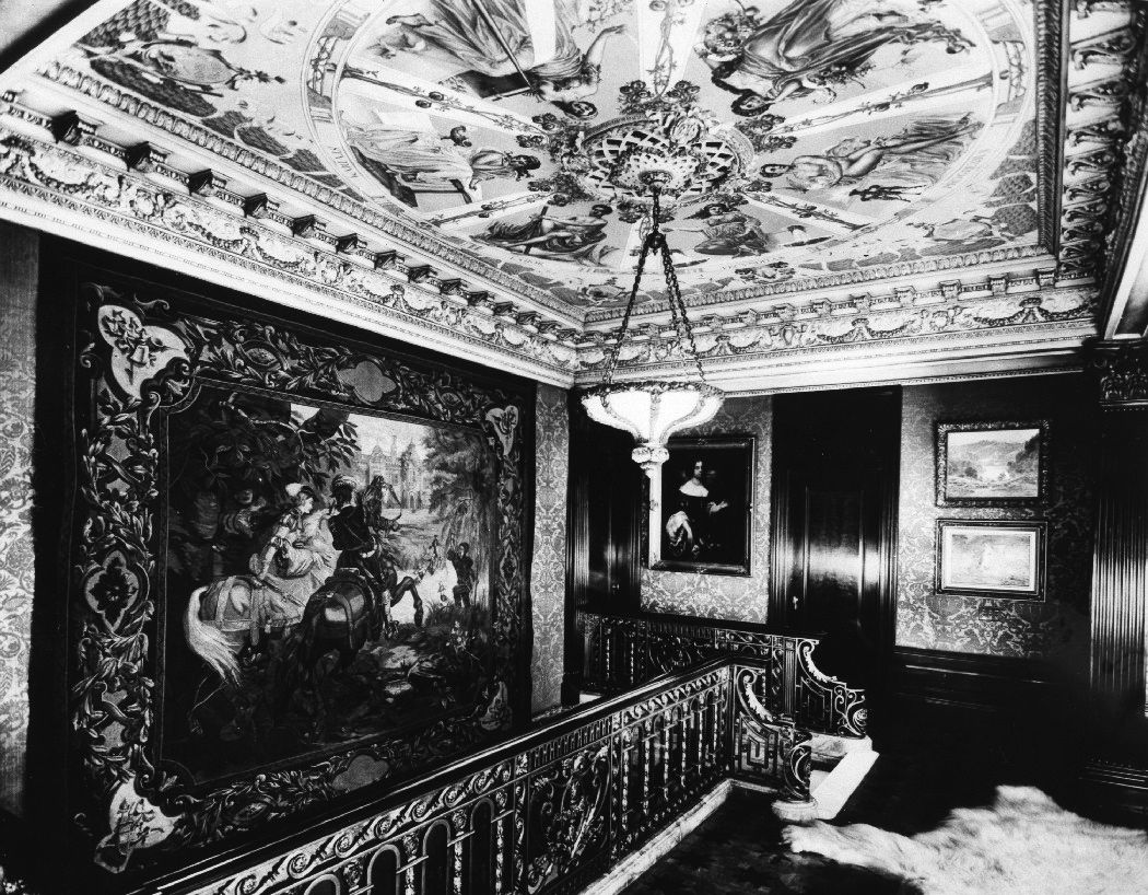 Staircase, Oscar Dufresne's Residence (circa 1930), 4040 Sherbrooke Street East, Montreal, Quebec, Canada.